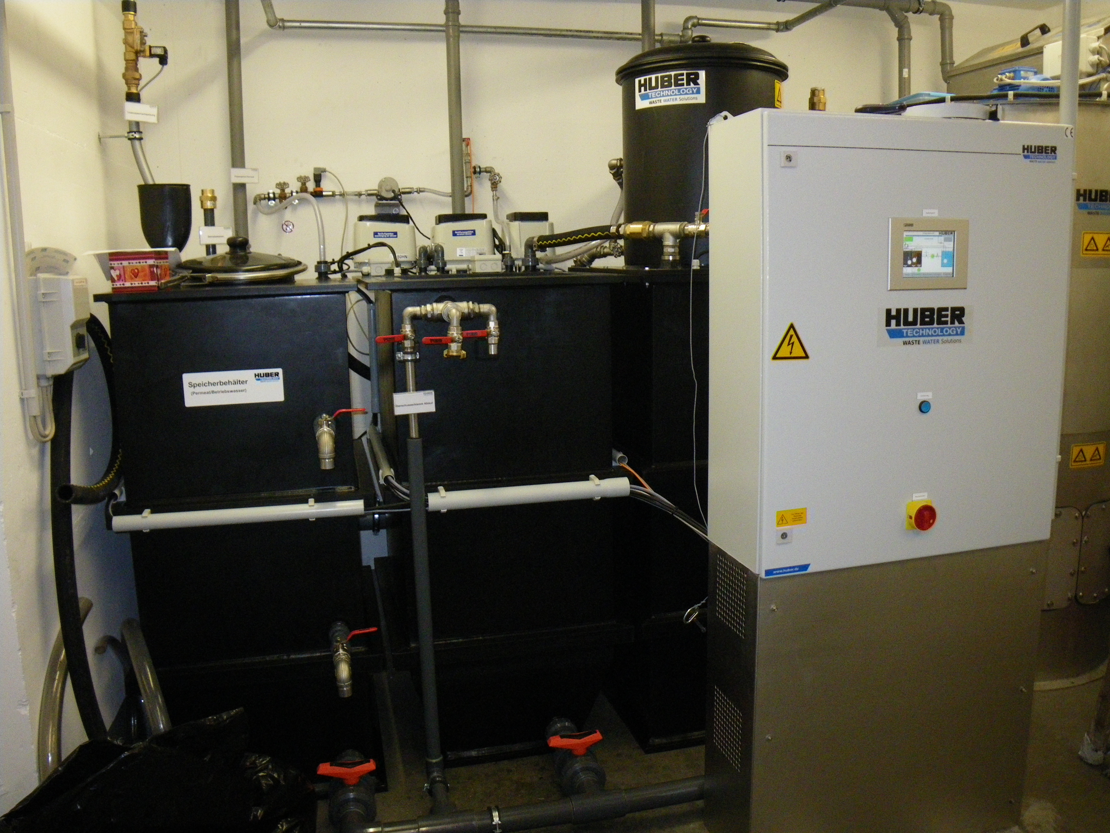 The complete installed graywater system is shown in this picture. On the right there is the control cabinet (white). Photo by Katharina Löw, May 2011